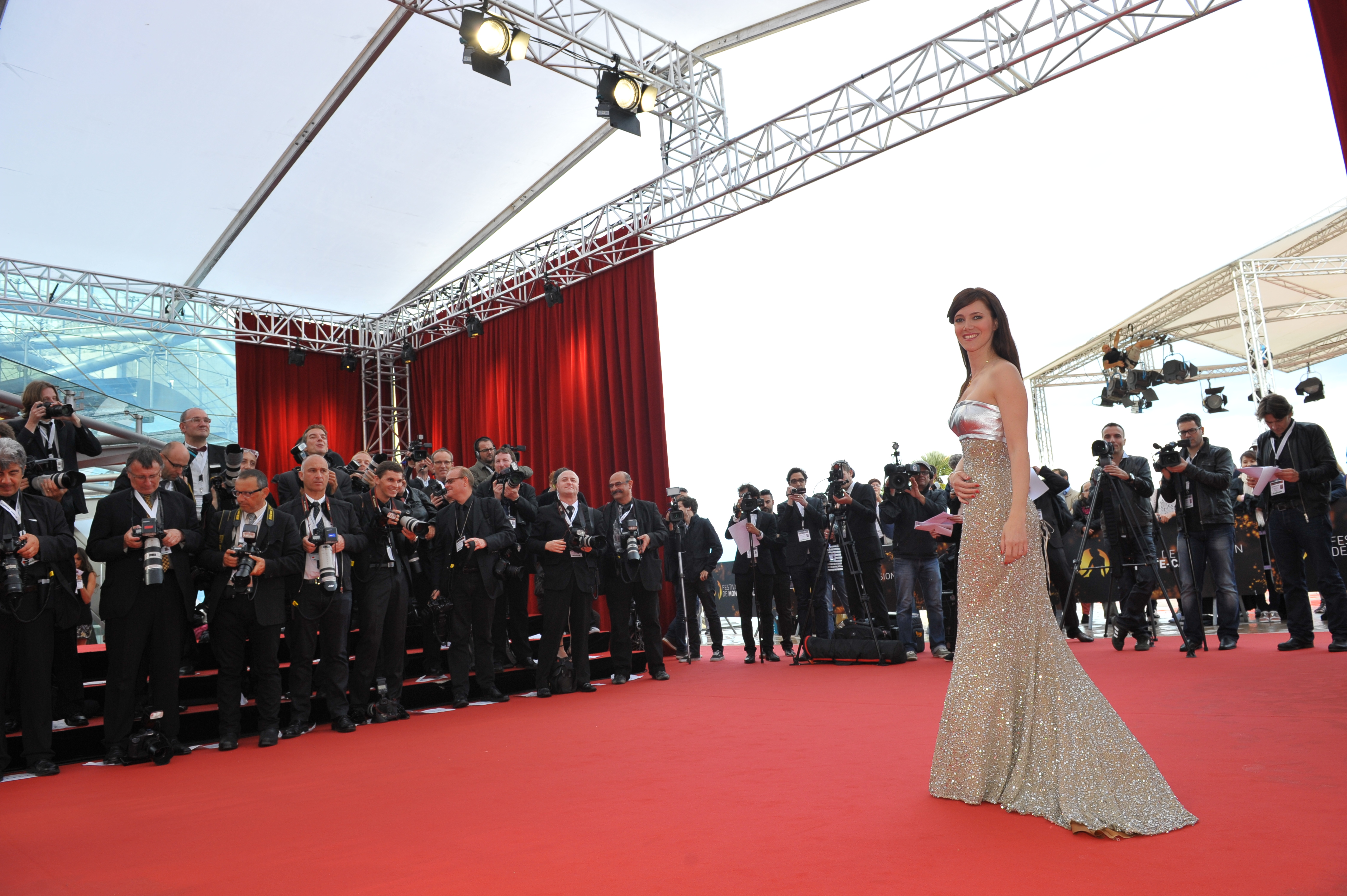 Red Carpet Photocall